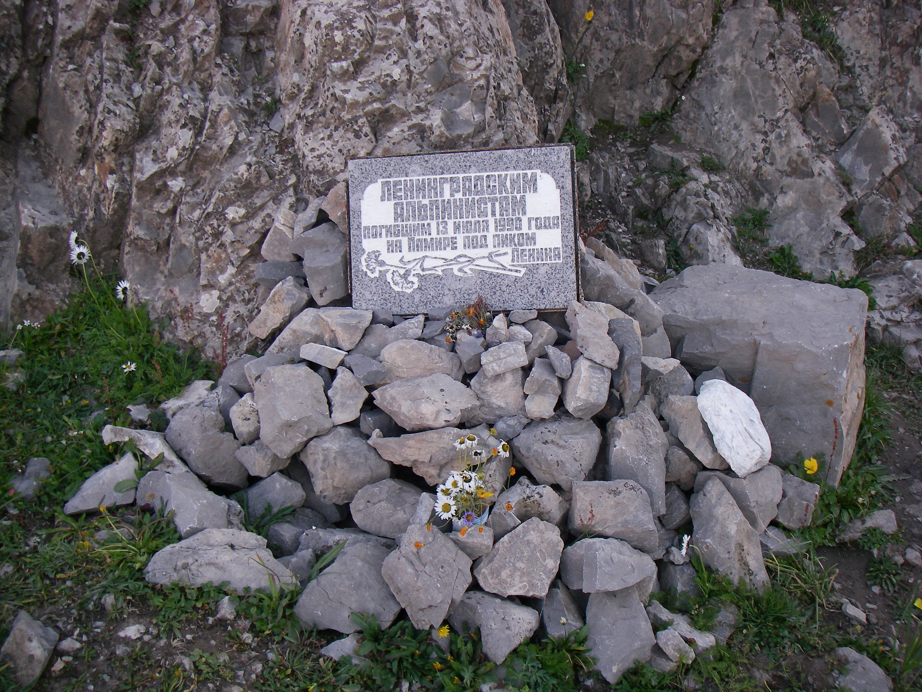 Memorial near the Lenin Peak base camp